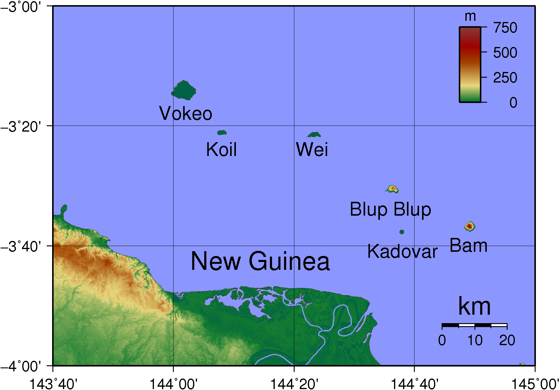 Map of Schouten Islands in Papua New Guinea - not to be confused with a group in Indonesia with the same name. Created with GMT from publicly released SRTM data